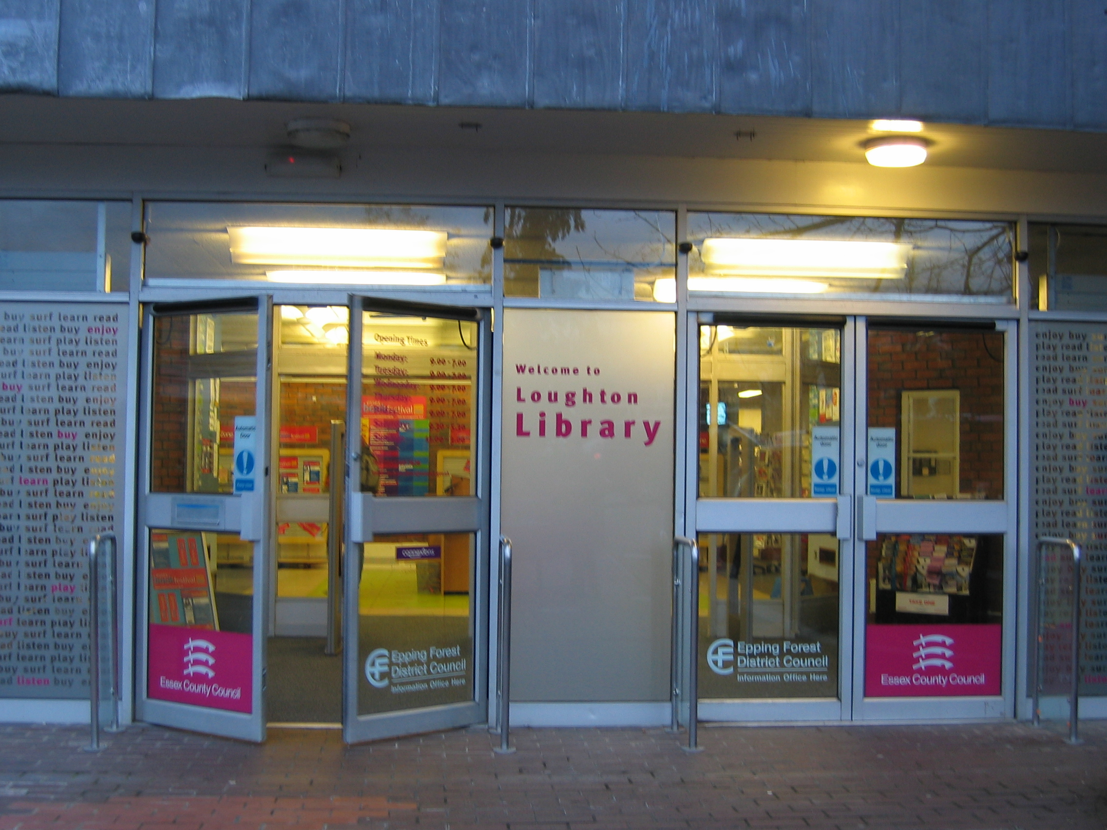 Loughton public library entrance